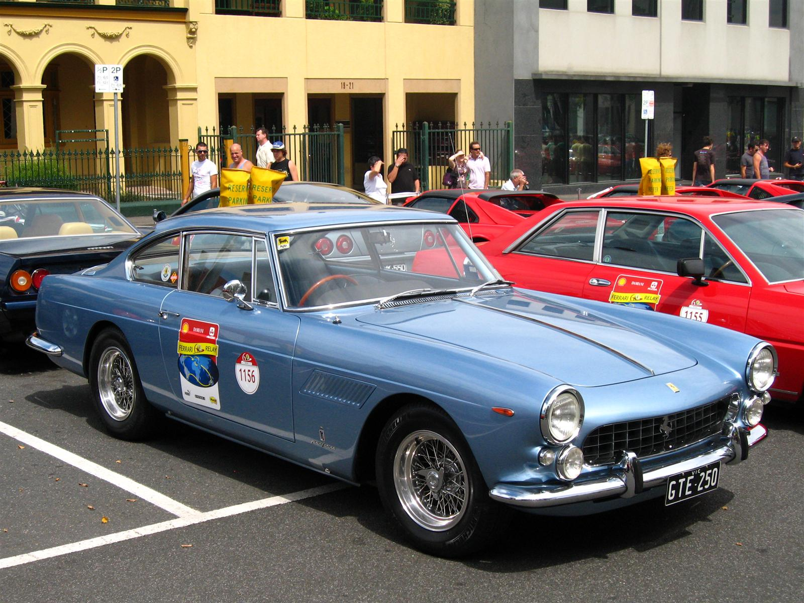 Ferrari 250 GTE - front right view 2007 Grand Prix Festival Celebrating Ferrari’s 60th Anniversary. Argyle Place, Carlton, Melbourne, Australia. Photo taken by Luke van Grieken on 3 March 2007 using a Canon IXUS 750 camera. Additional supercar images available at